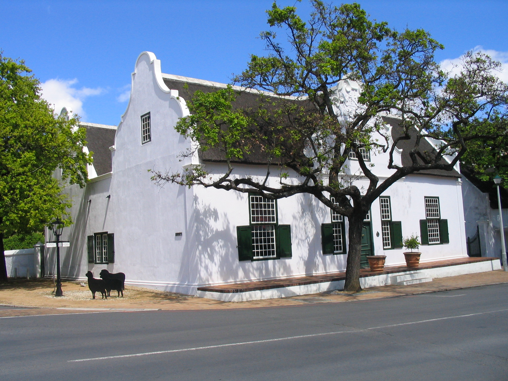 Bletterman House, Plein Street, Stellenbosch This media shows a South African Protected Site with SAHRA file reference 9/2/084/0050.